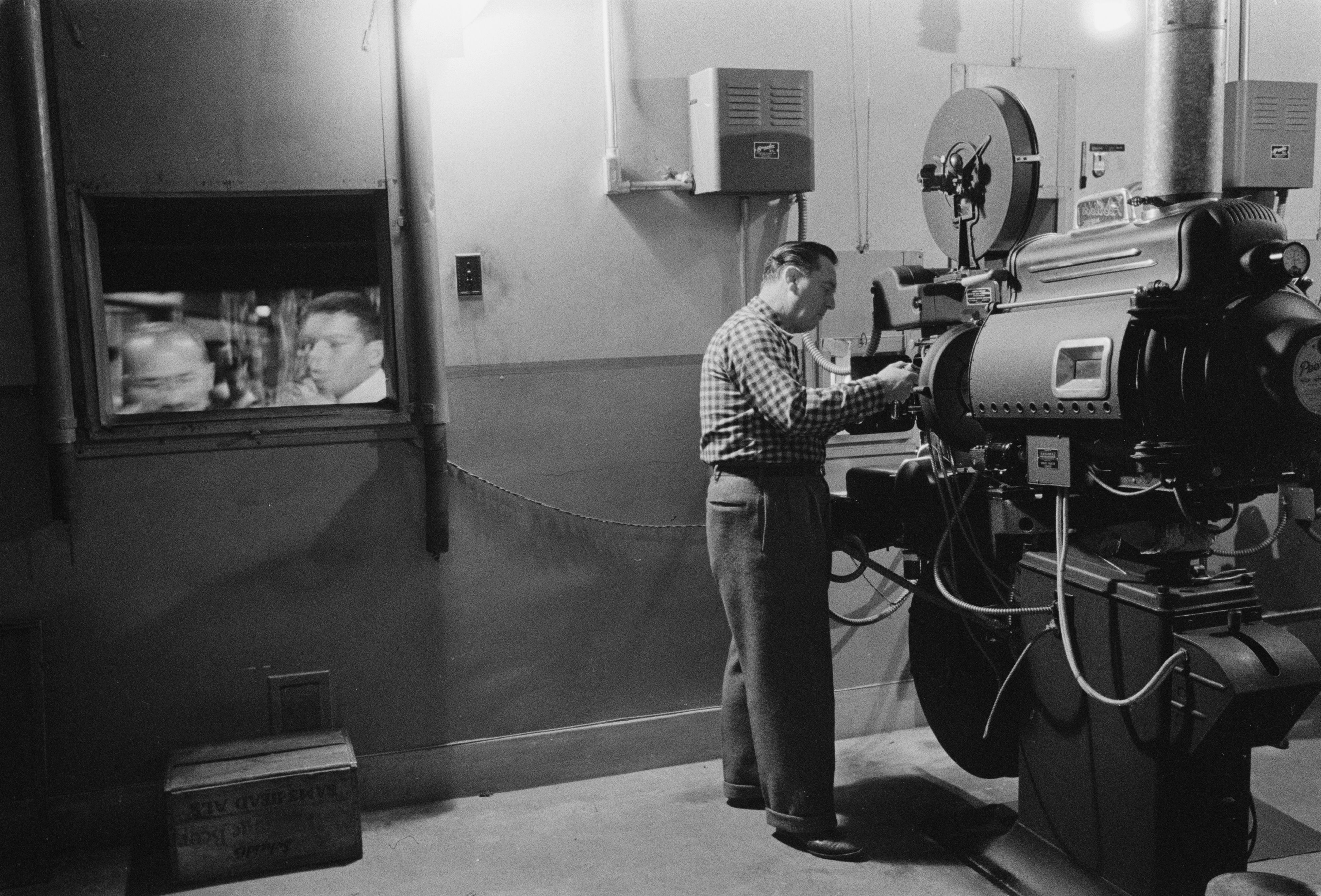 Man working with a projector in a movie theater